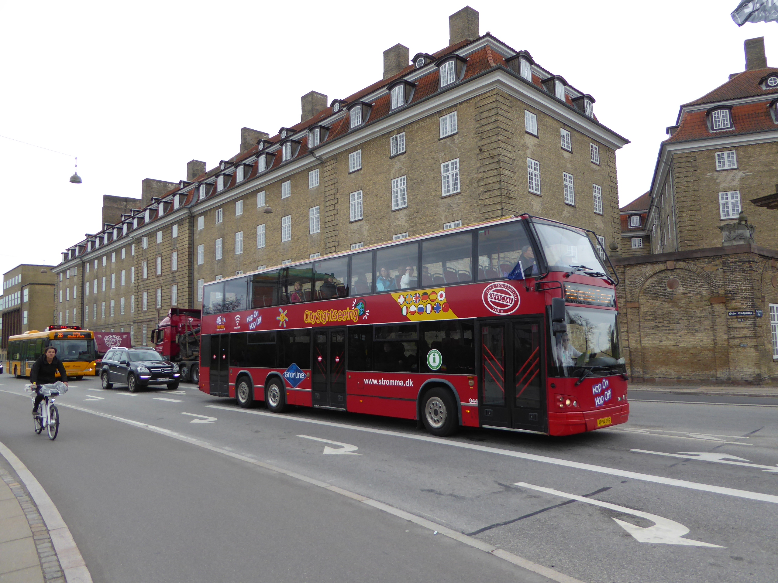 Sightseeing bus of Vikingbus driving for City Sightseeing Copenhagen on Øster Voldgade in Østerbro in Copenhagen. The building behind the bus is the old Sølvgade Barracks.